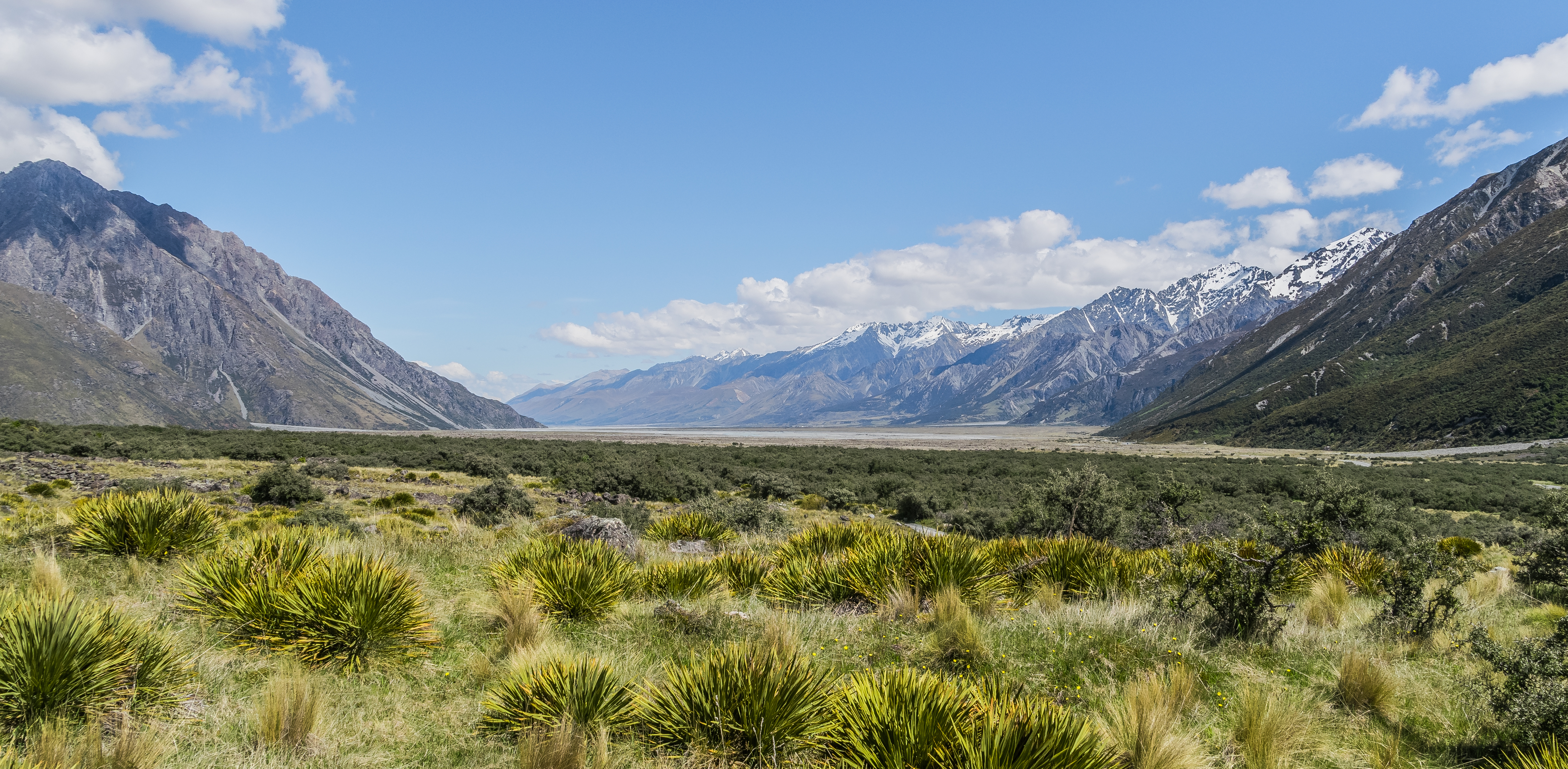 Valley of Tasman River in Aoraki/Mount Cook National Park in the South Island, New Zealand